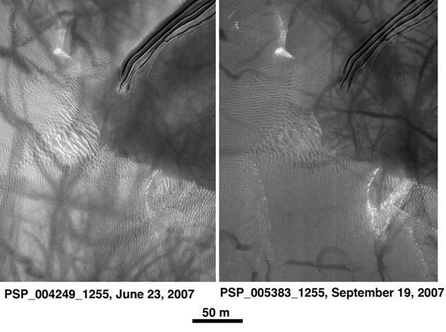 Russel Crater Dust Devil Changes, as seen by hirise. Location is 54.3 degrees south latitude and 13 degrees east longitude. Image was taken by the Mars Reconnaissance Orbiter's HiRISE. The HiRISE camera was built by Ball Aerospace and Technology Corporation and is operated by the University of Arizona. Image courtesy NASA/JPL/University of Arizona.